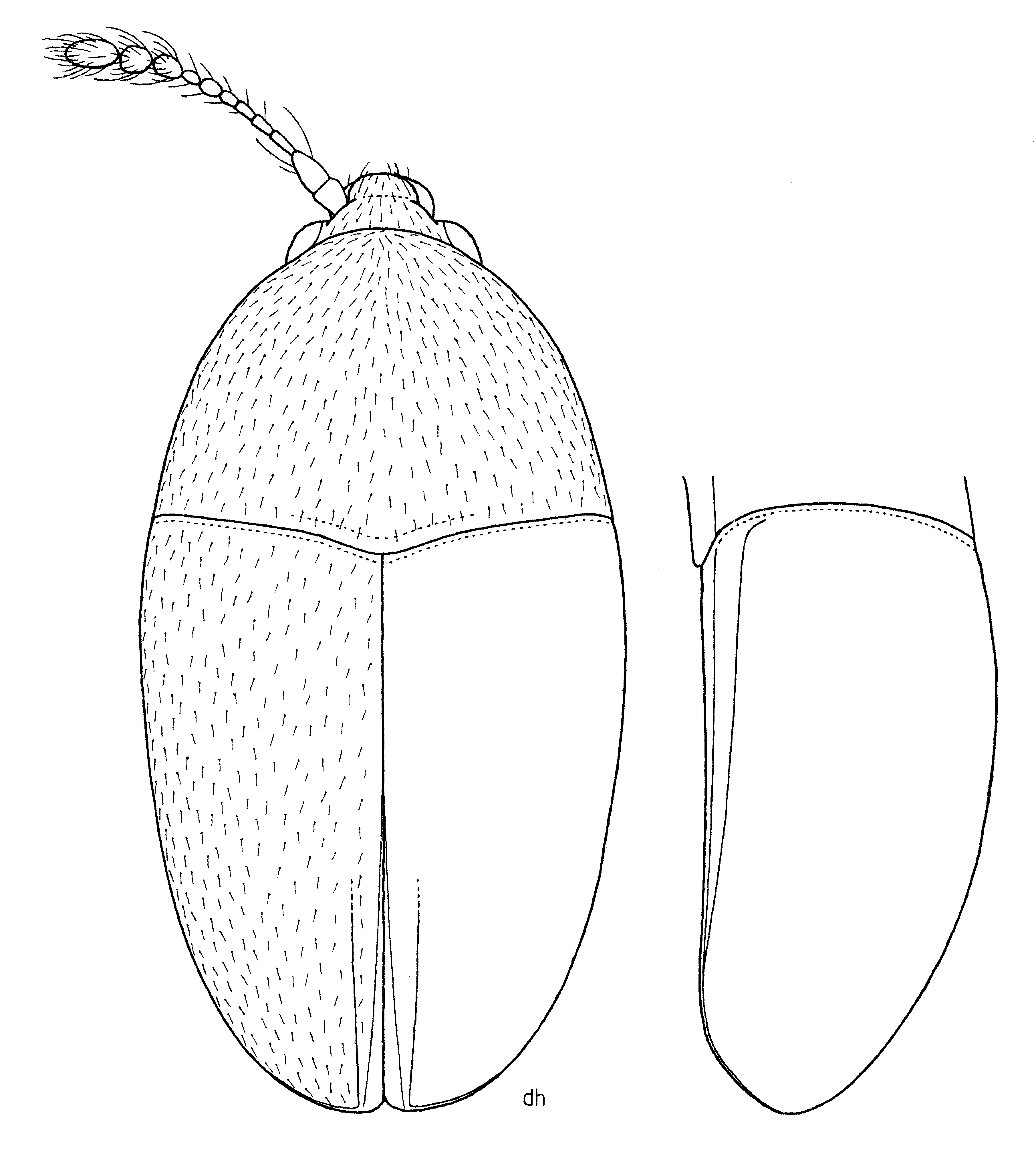 (Coleoptera: Staphylinidae) Baeocera tenuis illustrated by Des Helmore.